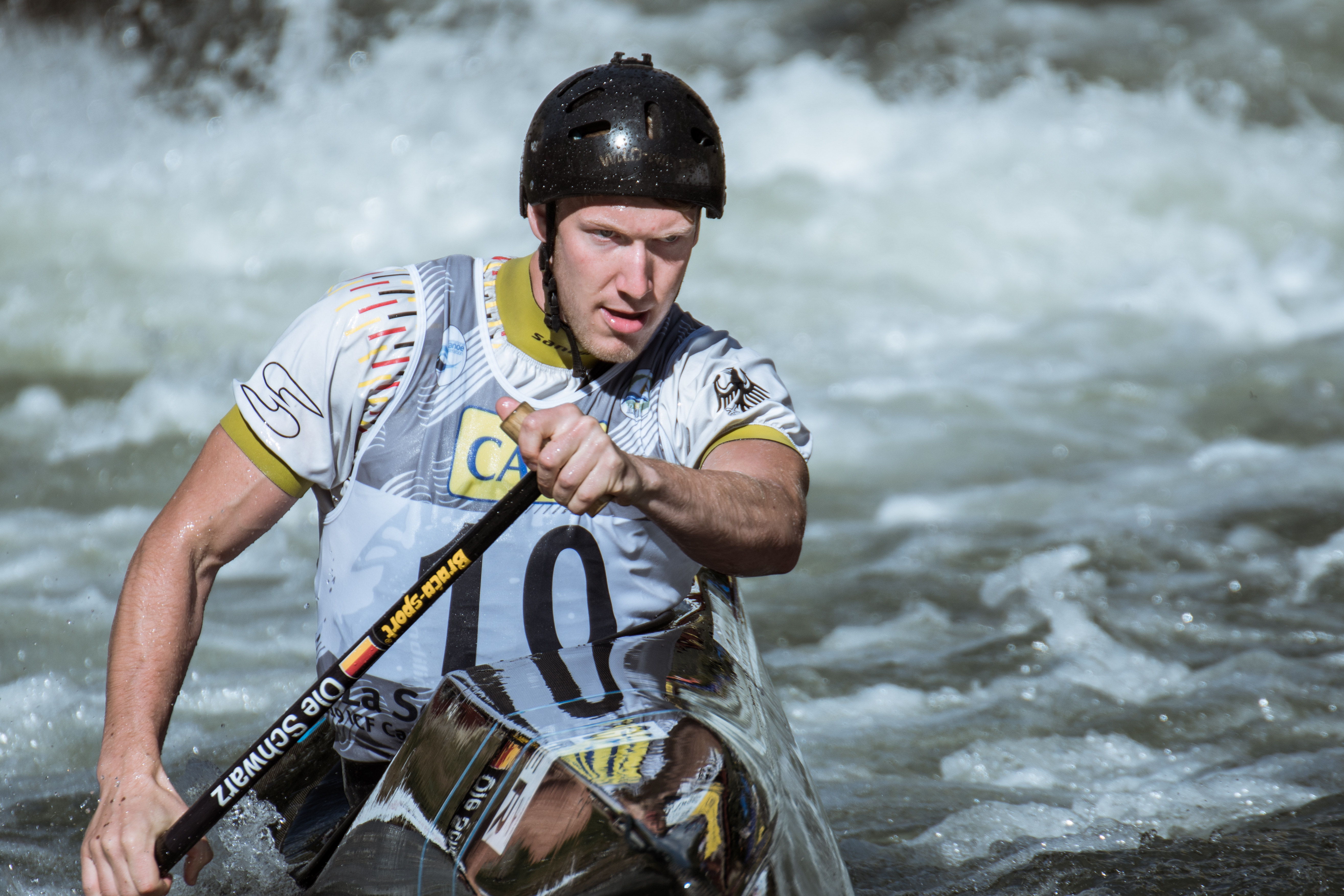 Ole Schwarz during the 2019 Canoe Wildwater World Championships in La Seu d'Urgell, Spain.